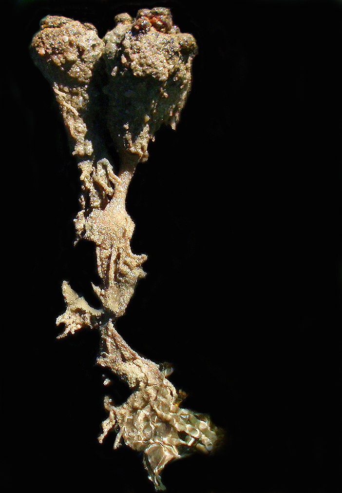 Photograph Pyura herdmani sand